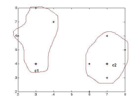 Figure 1.2 – clusters after step 1.